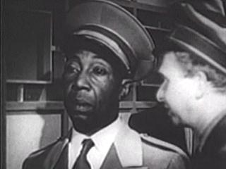 Charles R. Moore from the film Second Chorus (1940).